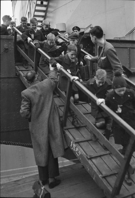 Dutch Child Refugees- Arrival in Britain at Tilbury, Essex, England, UK, 1945 A stream of young Dutch refugees pours down the gangway onto Tilbury Docks, as they arrive in Britain. They are helped by camp leader, Mr J Oosterbaan, seen here on the left.